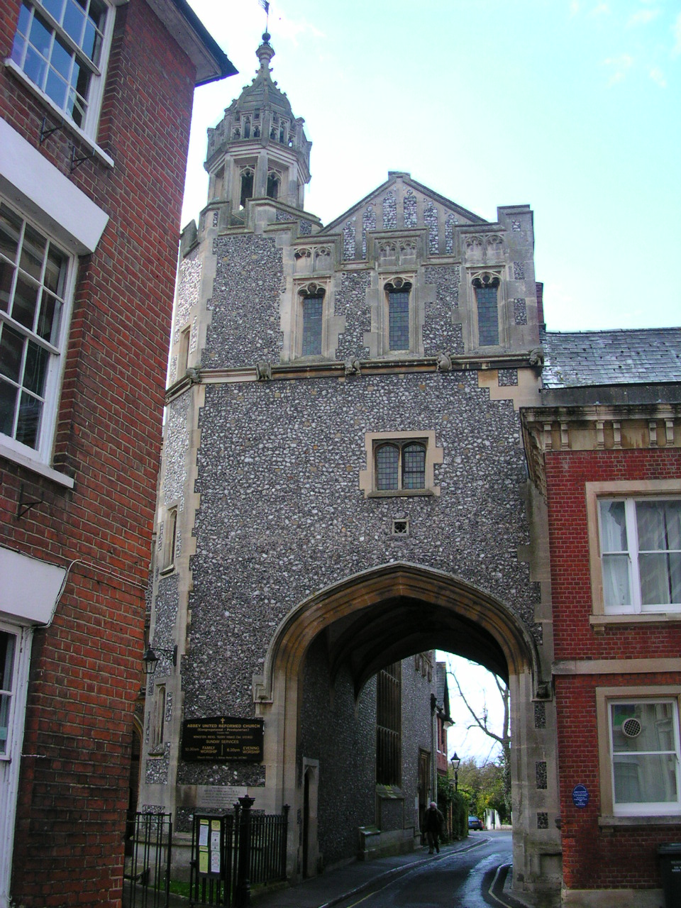 Romsey United Reformed Church, Hampshire, England.